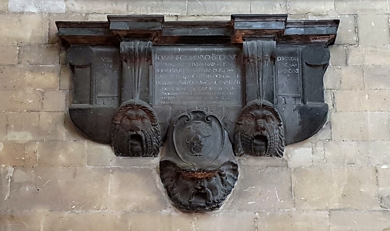 Epitaph of the physician, linguist and humanist Johannes Goropius Becanus in the choir of the former Minorite Church (Oude Minderbroederskerk) in Maastricht, the Netherlands. Becanus died in Maastricht in 1573 when he was attending to Juan de la Cerda, Spanish governor of the Netherlands.